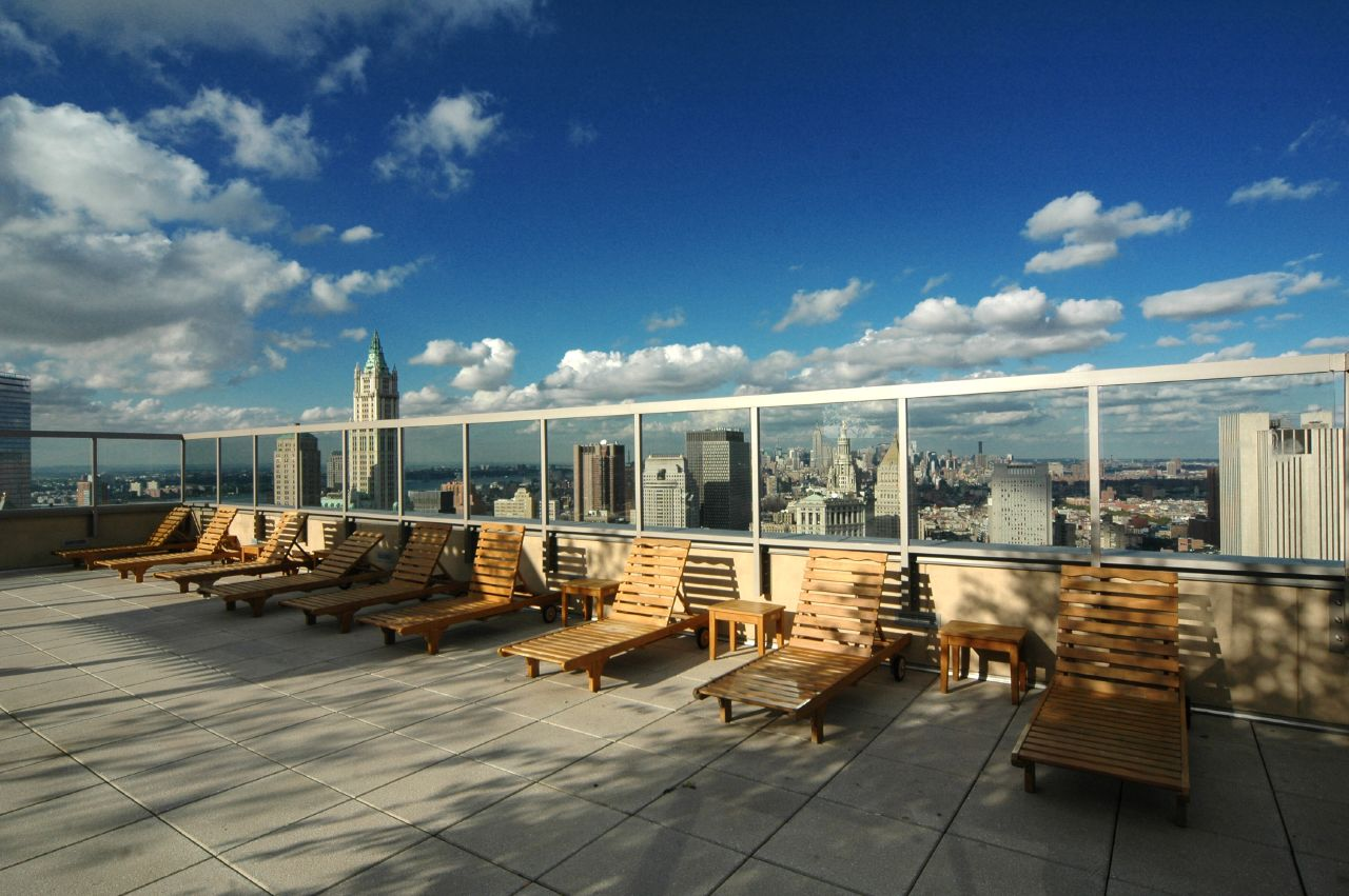 Roof terrace above NYC, USA